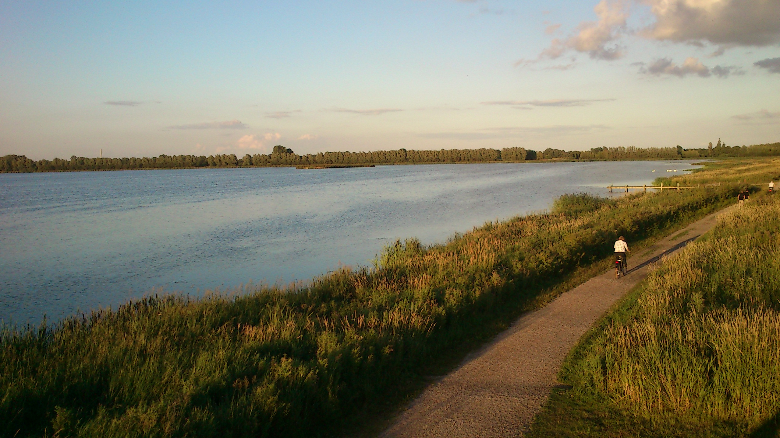 A view to the east of Egå Engsø.